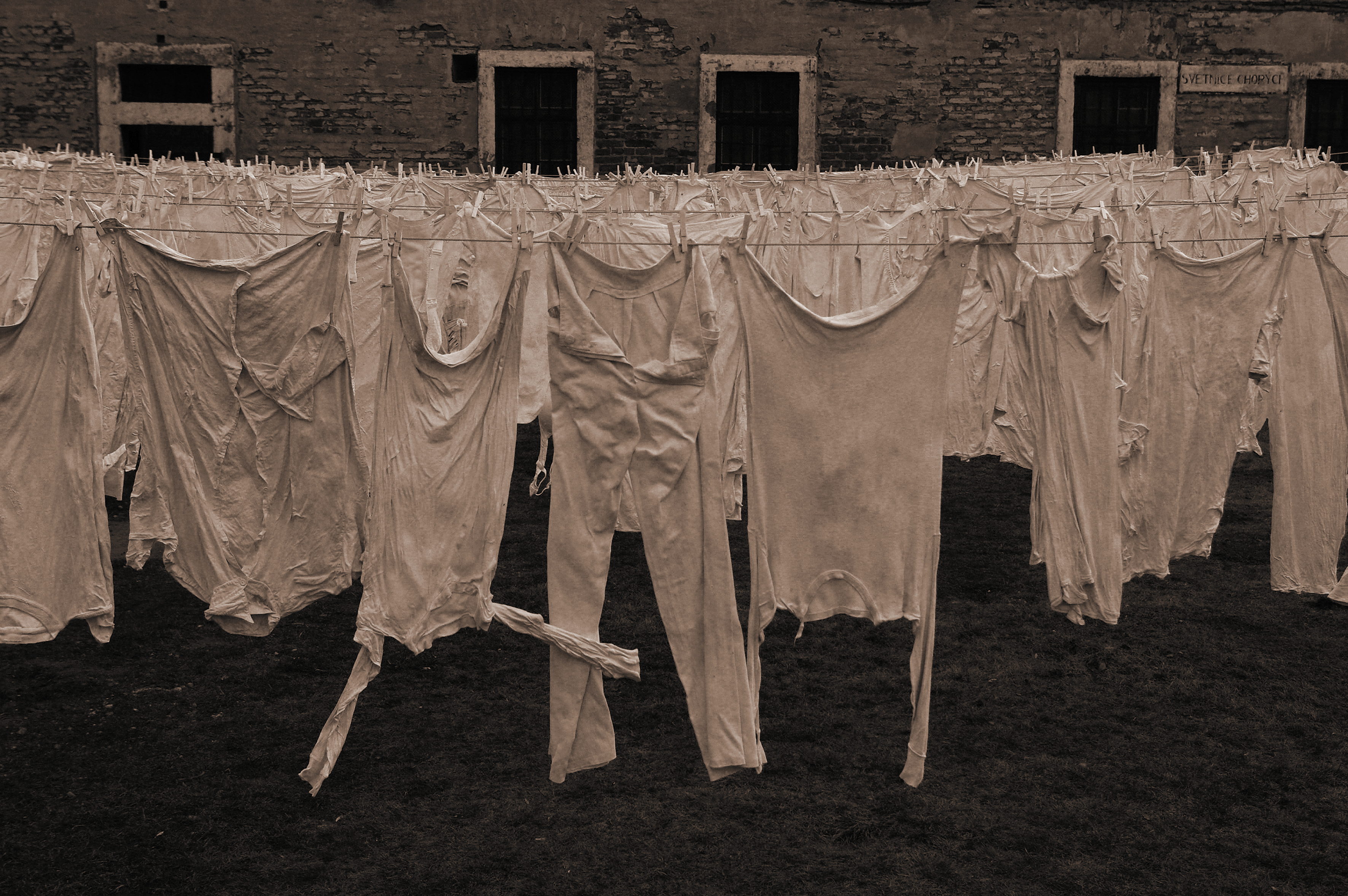 Kamila Ženatá: Women’s Yard, Theresienstadt, 2013